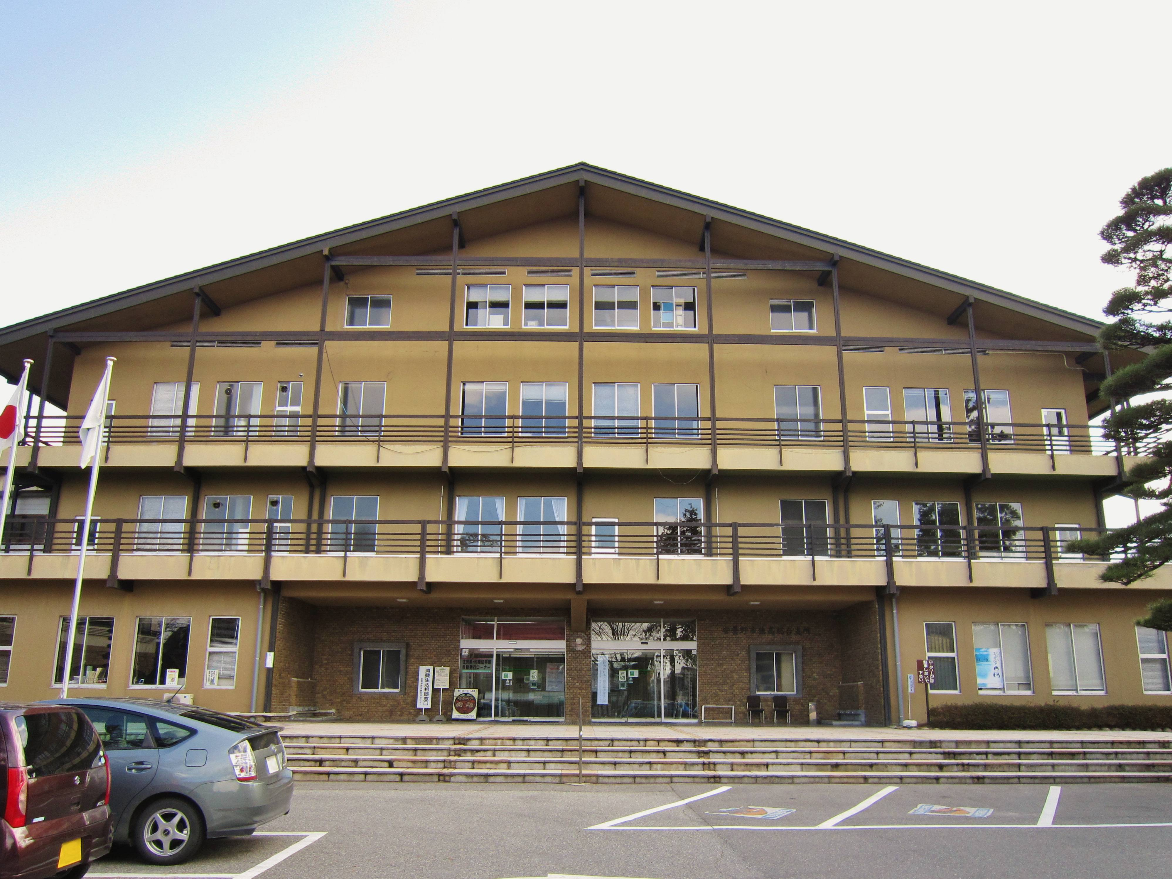 Azumino city Hotaka branch office.